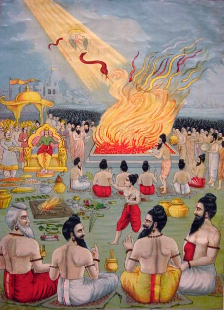 The frame story for the epic mahabharata is its telling on the occasion of a huge "snake-sacrifice" by the king Janamejaya